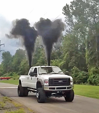 A Ford F-450 monster truck stopped on a rural road "rolling coal", or blowing large clouds of dark grey diesel smoke.